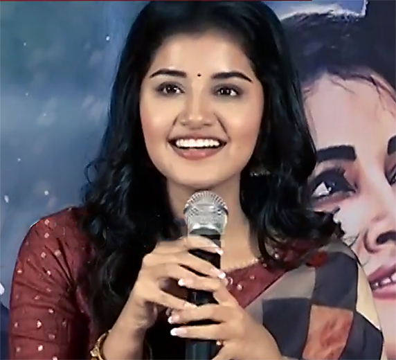 Anupama at Tej i love u movie press meet